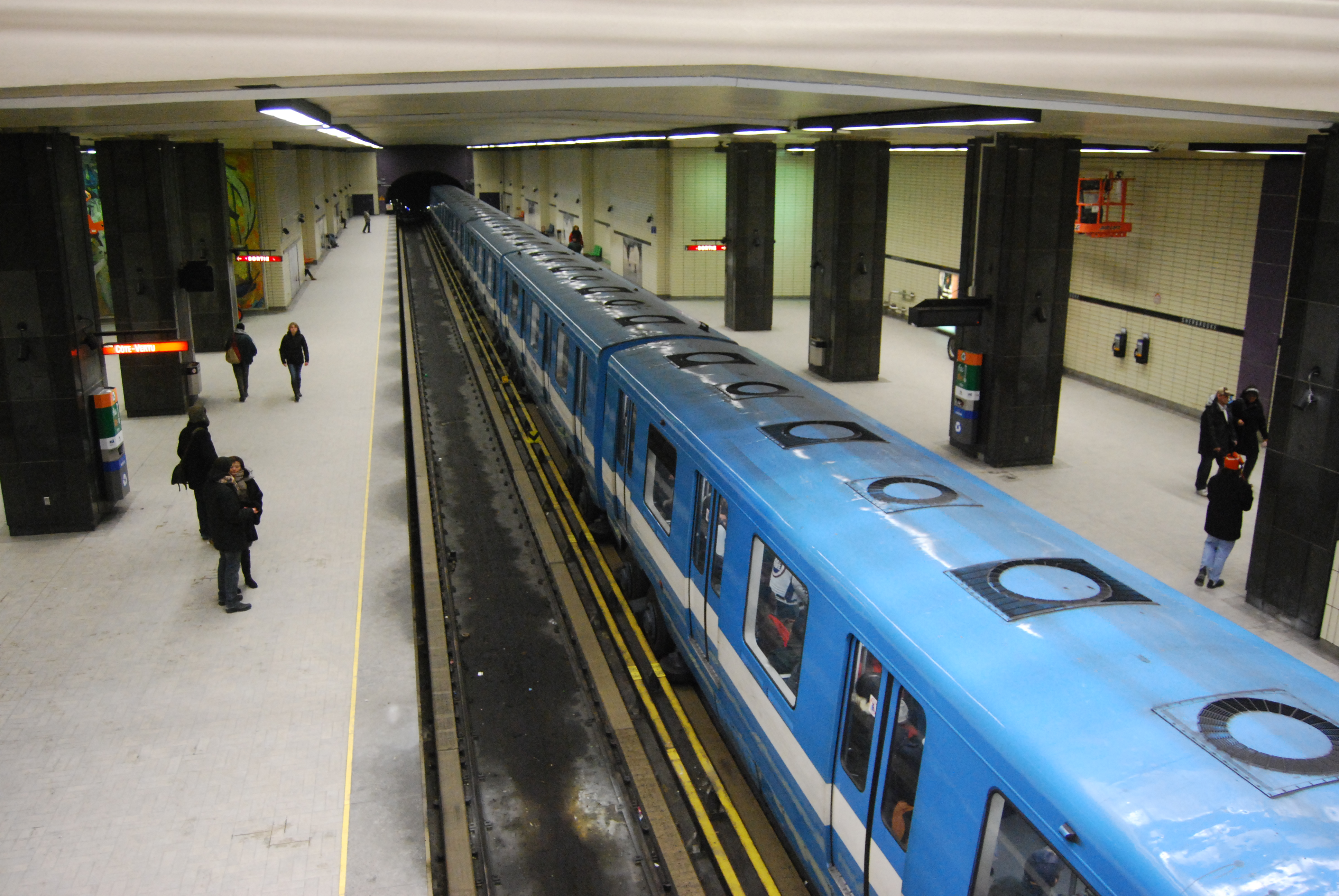 Platform of Sherbrooke Montreal Metro Station 中文（香港）: 蒙特利爾地鐵舍布奇站月台